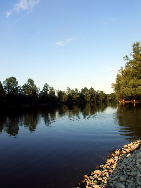 Great Morava near Lapovo